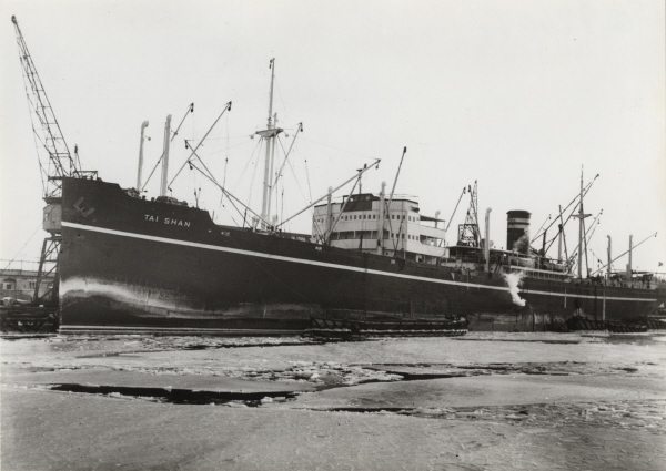 Norwegian cargo vessel and kvarstadship TAI SHAN, Wilh. Wilhelmsen, Tönsberg Callsign: LJPF; D.w.t.: 12060; Br.t.: 6967